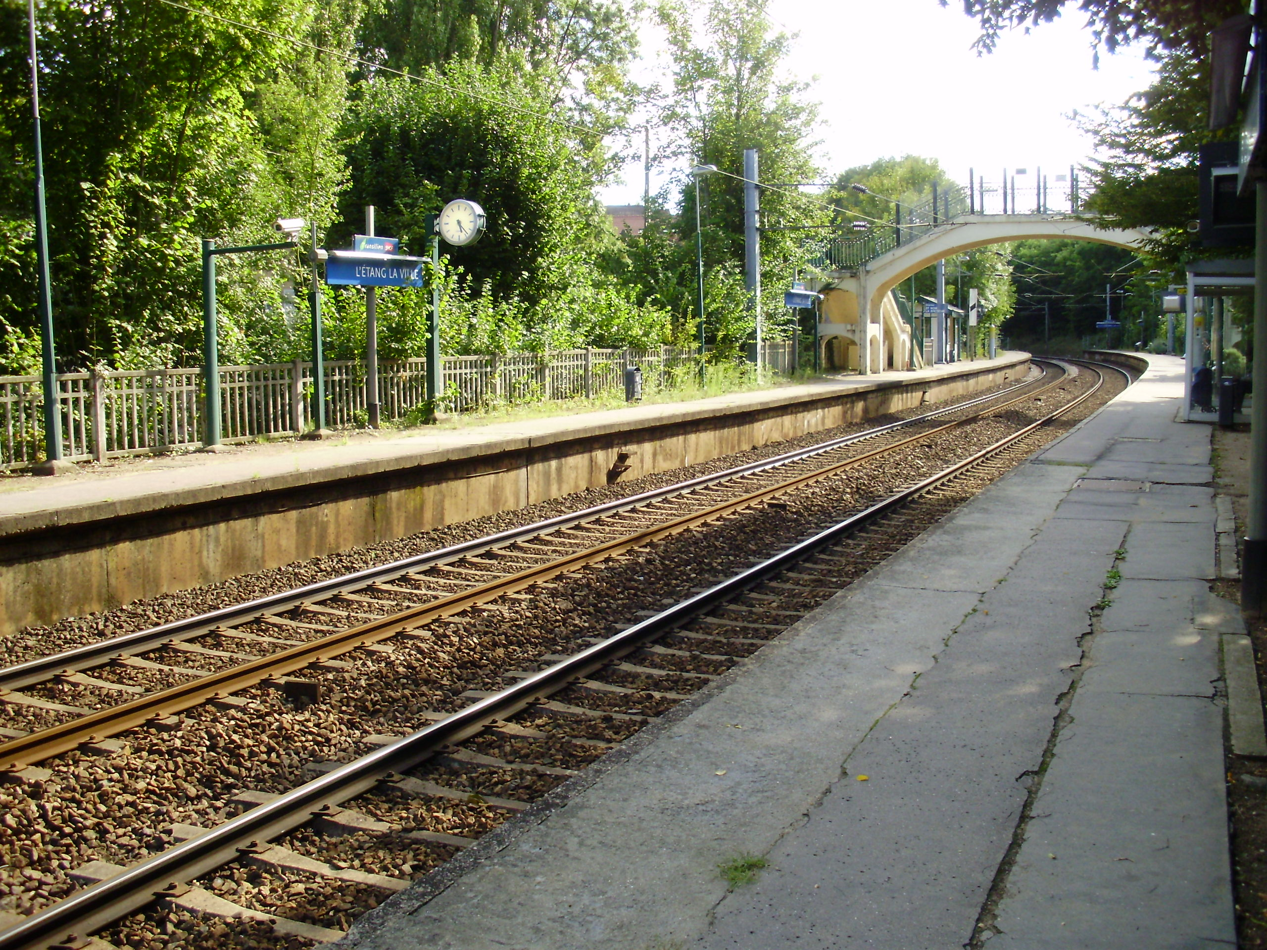 L'Étang-la-Ville station, Yvelines, France (platforms seen by looking towards Saint-Nom-la-Bretèche)